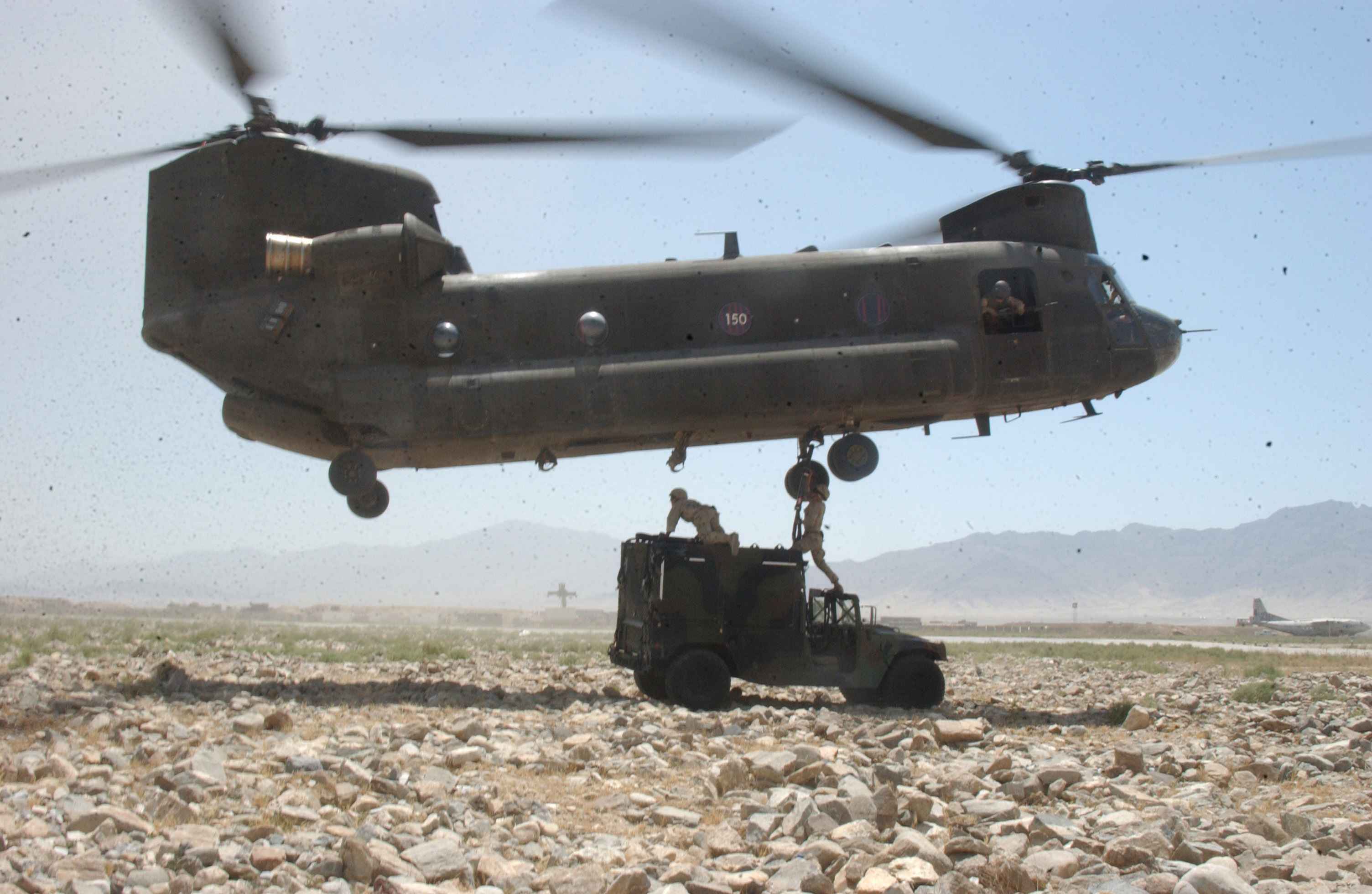 U.S. Army soldiers prepare a Humvee to be sling-loaded by a CH-47 Chinook helicopter in Bagram, Afghanistan, on July 24, 2004. The soldiers are with the 25th Infantry Division.